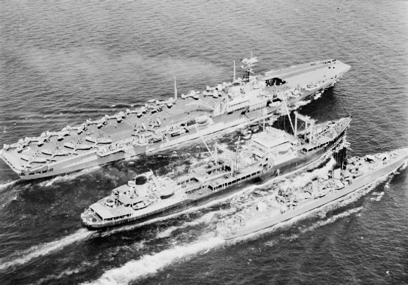 The Royal Navy oiler RFA Wave Sovereign (A211) resupplying the aircraft carrier HMS Ocean (R68) and the Canadian Tribal-class destroyer HMCS Nootka (DDE 213) off Korea in 1952.